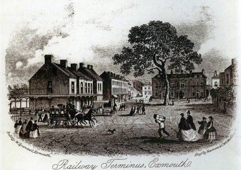 Exmouth station at the time of opening